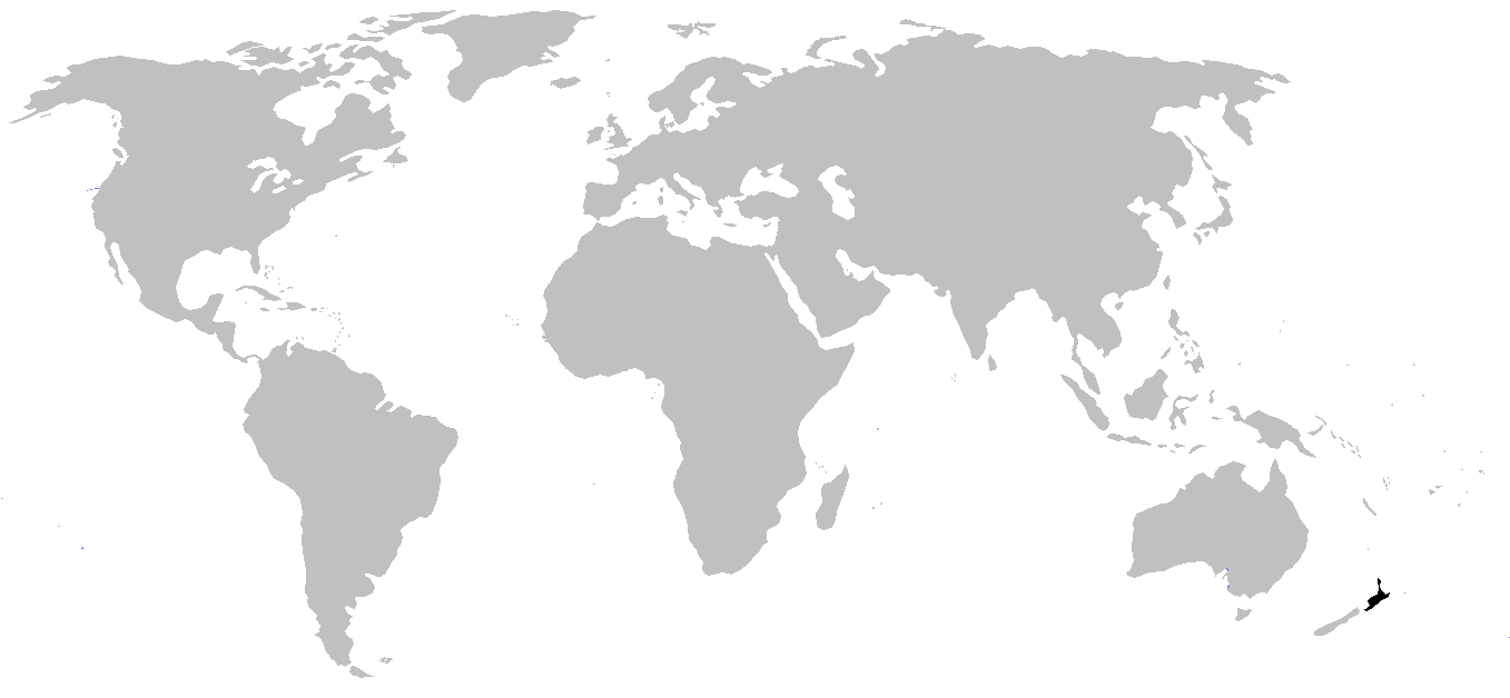 World distribution of Order Rhynchocephalia (=Sphenodontia), after data from Cogger, H.G & Zweifel, R.G. (1998). Reptiles & Amphibians". ISBN 0121785602